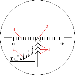 PSO-1 Grid